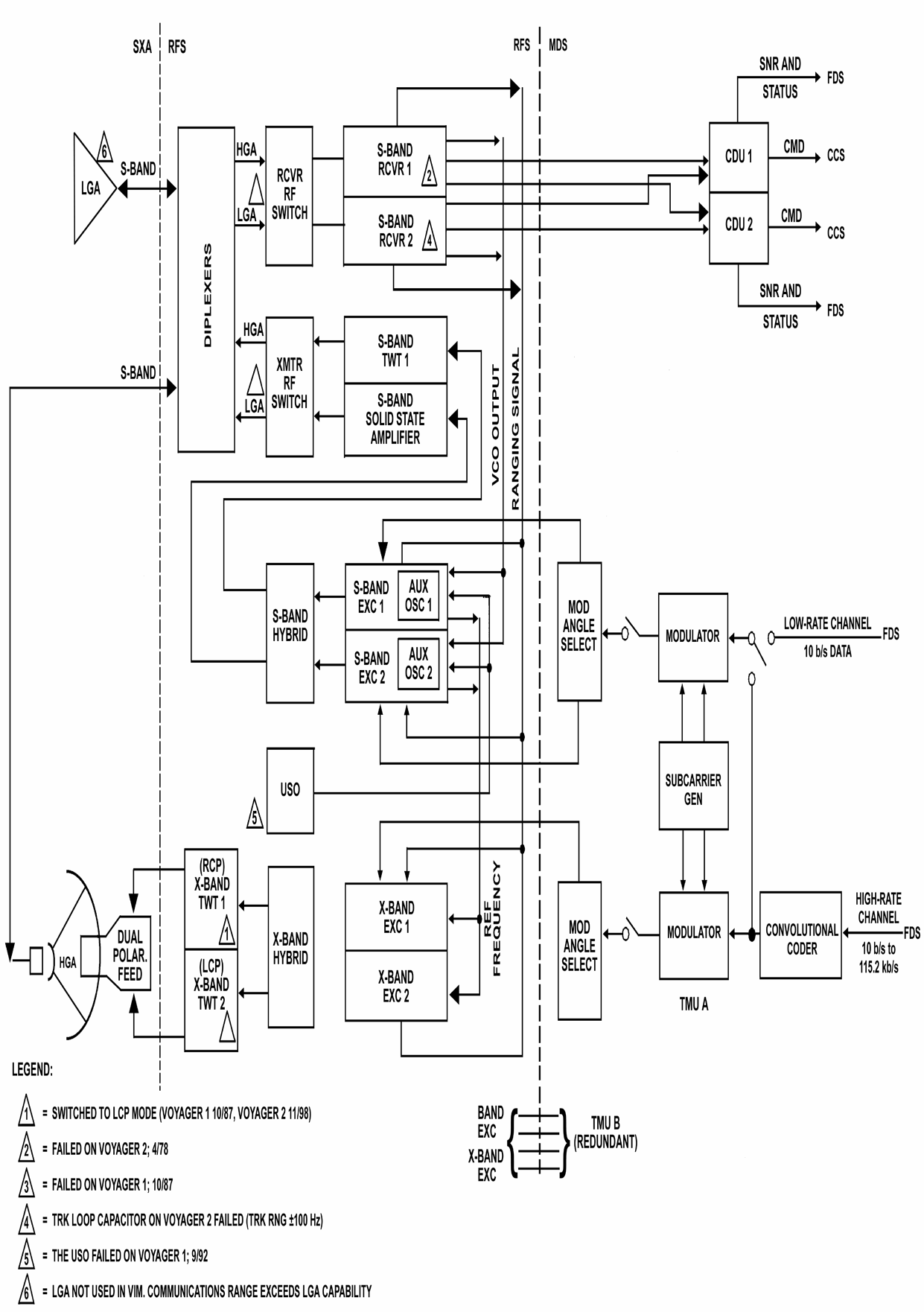 Voyager spacecraft telecom functional block diagram.